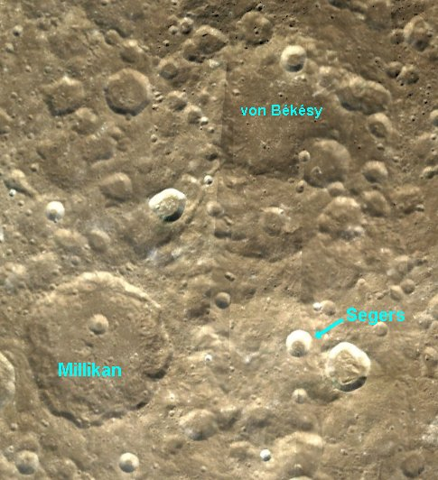 Moon crater Segers and nearby craters.